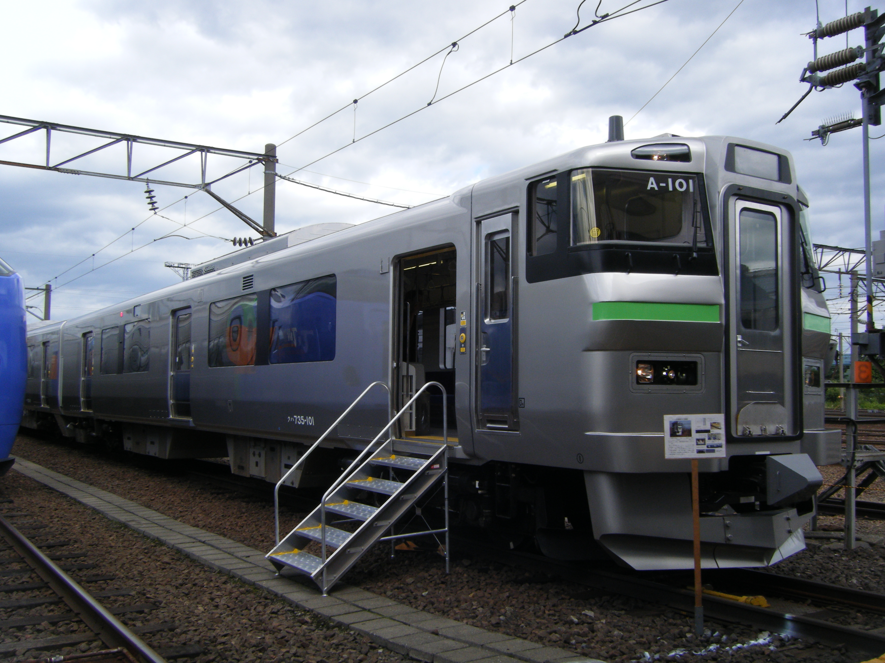 JR Hokkaido 735 series EMU set A-101 on display at Sapporo Depot Open Day